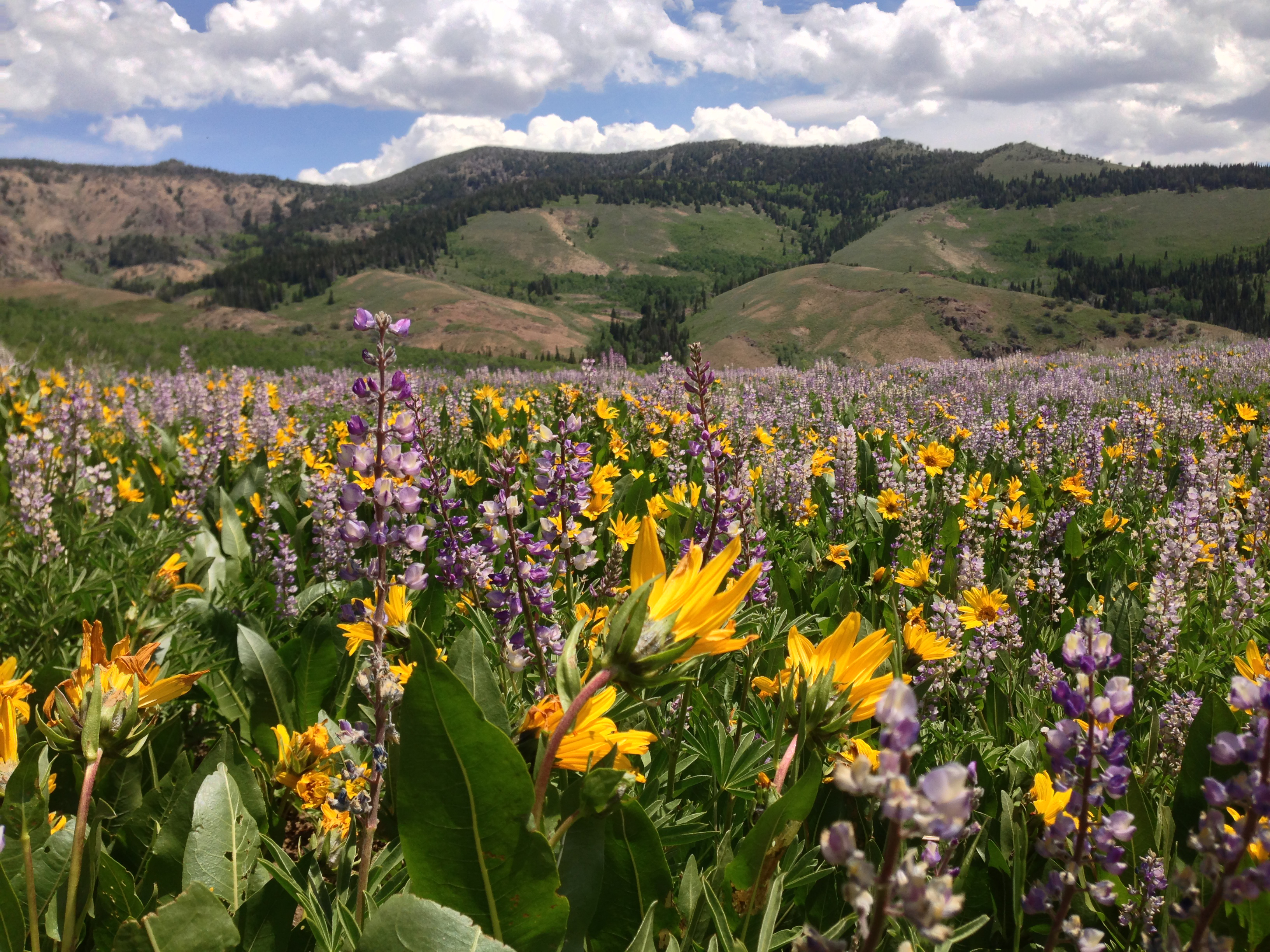 Wildflowers east of Elko County Route 748 (Charleston-Jarbidge Road) along the border of the Mountain City and Jarbidge ranger districts in Copper Basin, Nevada